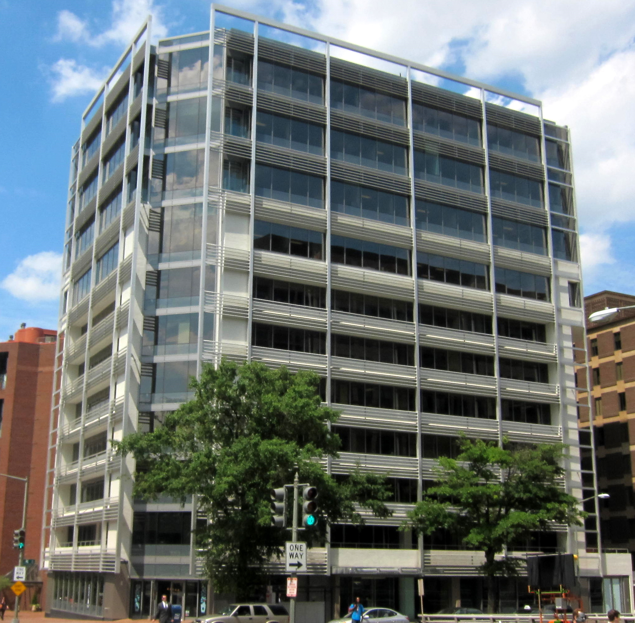 The Washington Park Building located at 2175 K Street, N.W., in the West End neighborhood of Washington, D.C. The postmodern high-rise was built in 1982, but underwent an extensive renovation in 2010. Tenants include the European Union Delegation, Food and Agriculture Organization (Liaison Office for North America), U.S. Chemical Safety and Hazard Investigation Board, Washington Institute of Thoracic and Cardiovascular Surgery, and U.S. National Committee for World Food Day.